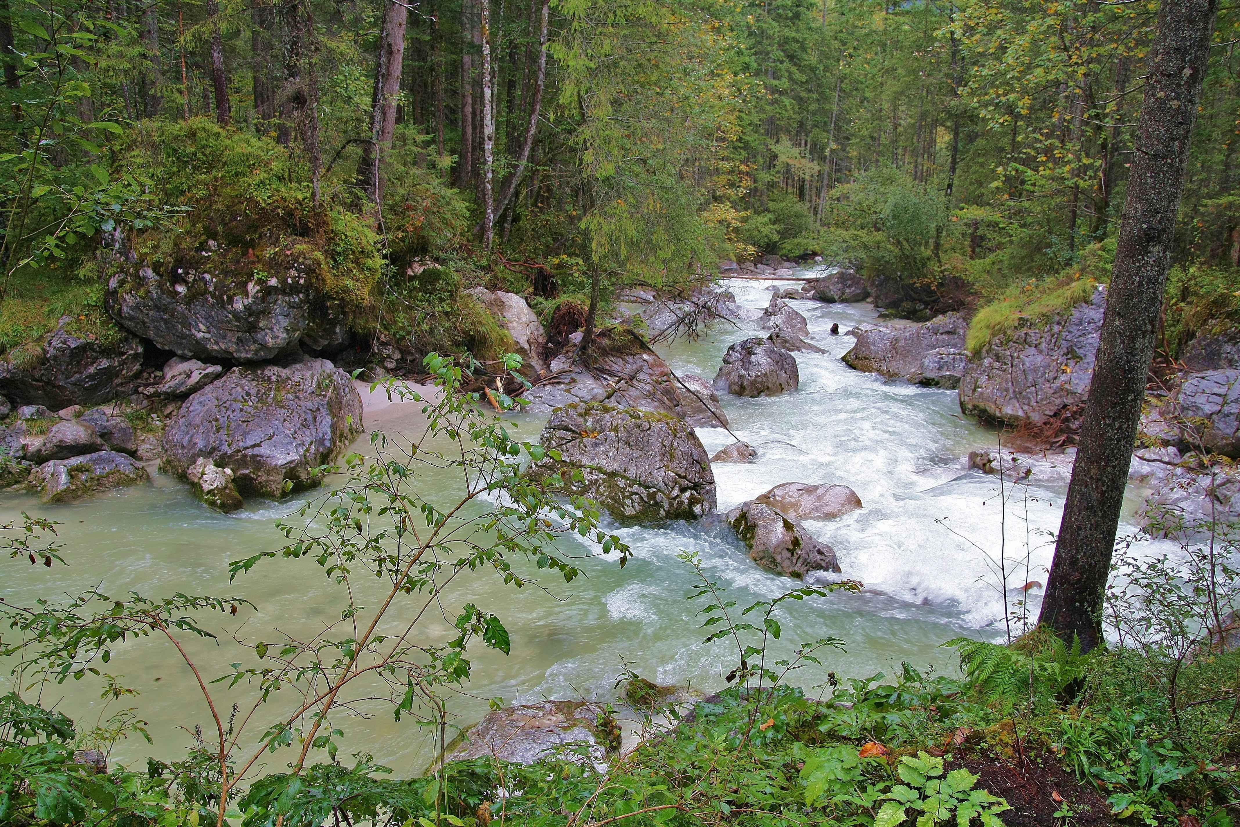 The Geotope (Geologically Interesting Site) Zauberwald (Magic Forest) is located between lake Hintersee and the village of Ramsau near Berchtesgaden. It was created by a gigantic landslide down the Hochkalter mountain, approximately 3500 years ago.